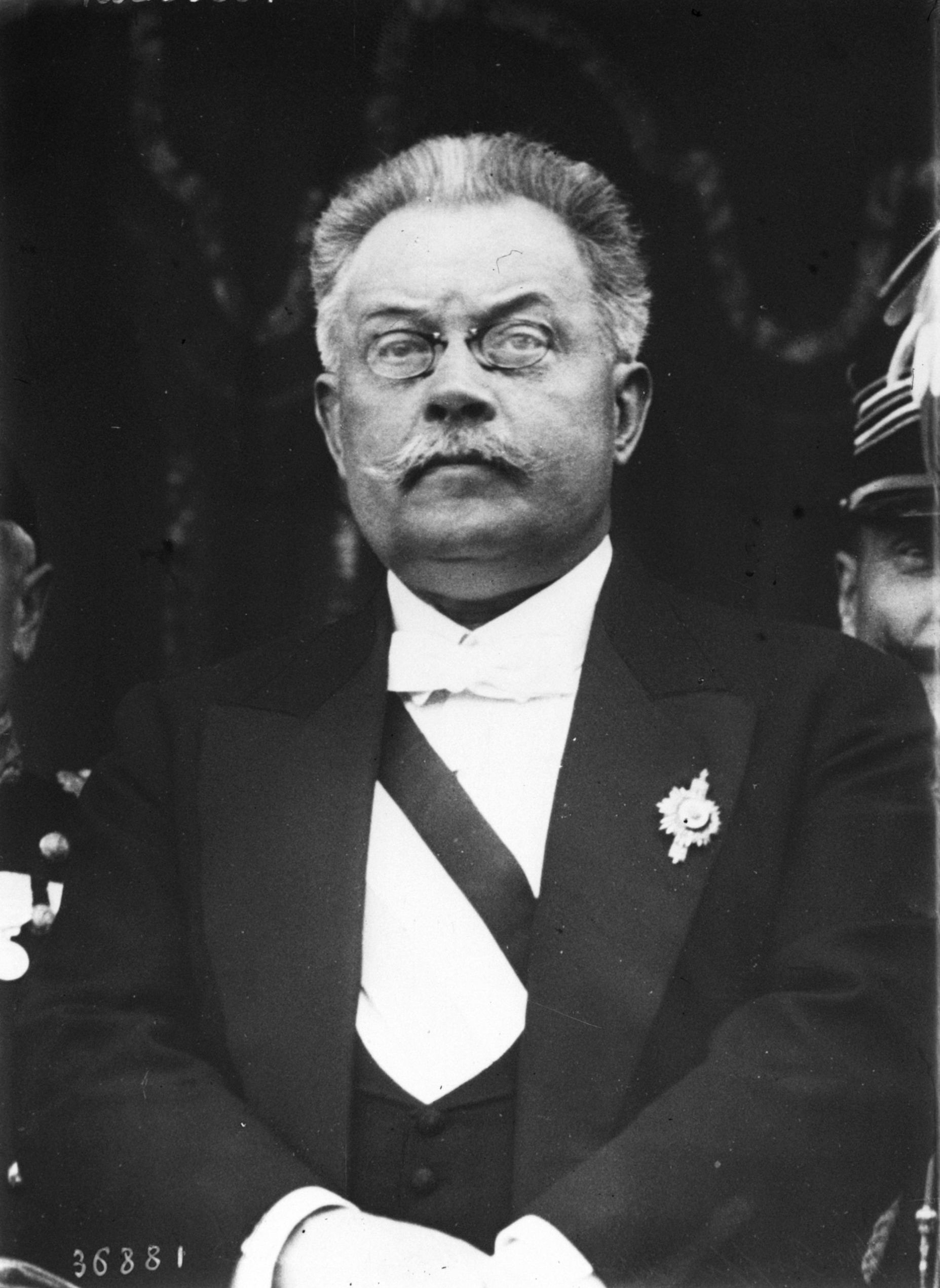 French politician Jean Cruppi (1855-1933).